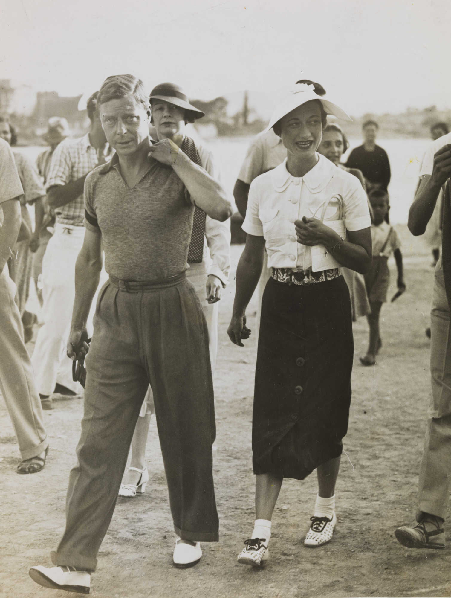 Daily Herald Archive at the National Media Museum King Edward VIII (1894-1972) reigned from 20 January to 11 December 1936. Just a few months into his sovereignty he caused controversy by proposing to American socialite Wallis Simpson (1896-1986), who had divorced her first husband and was seeking a divorce from her second. The Prime Minister opposed the marriage and, had he remained King, it would have compromised Edward’s position as head of the Church of England. Edward abdicated the throne and was never crowned. This photograph has been selected from the Daily Herald Archive, a collection of over three million photographs. The archive holds work of international, national and local importance by both staff and agency photographers. We're happy for you to share this digital image within the spirit of The Commons. Certain restrictions on high quality reproductions of the original physical version of apply though; if you're unsure please visit the National Media Museum website. For obtaining reproductions of selected images please go to the Science and Society Picture Library.